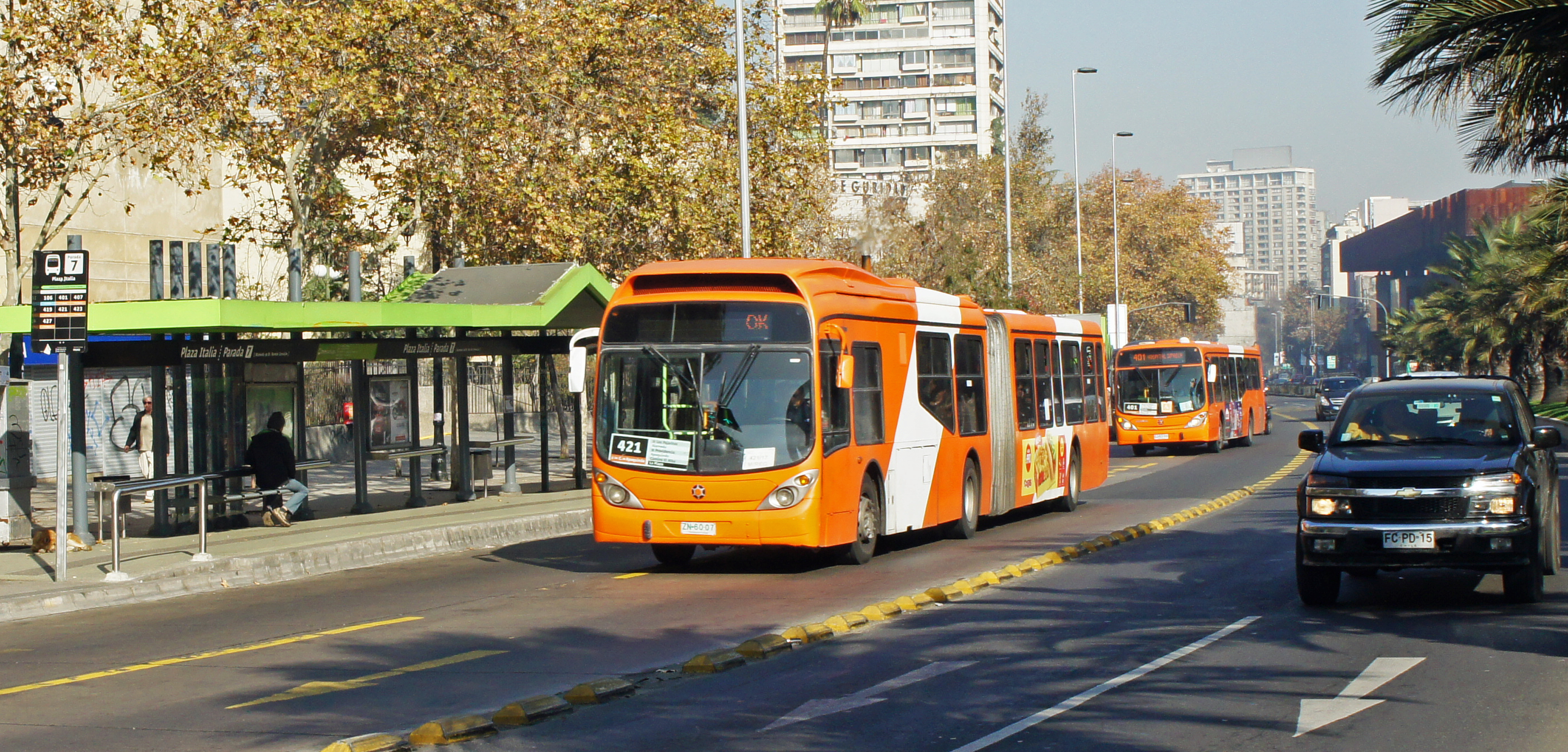 Transantiago buses on Avenida Libertador General Bernardo O'Higgins, Bus stop 7, Plaza Italia. Santiago, Chile